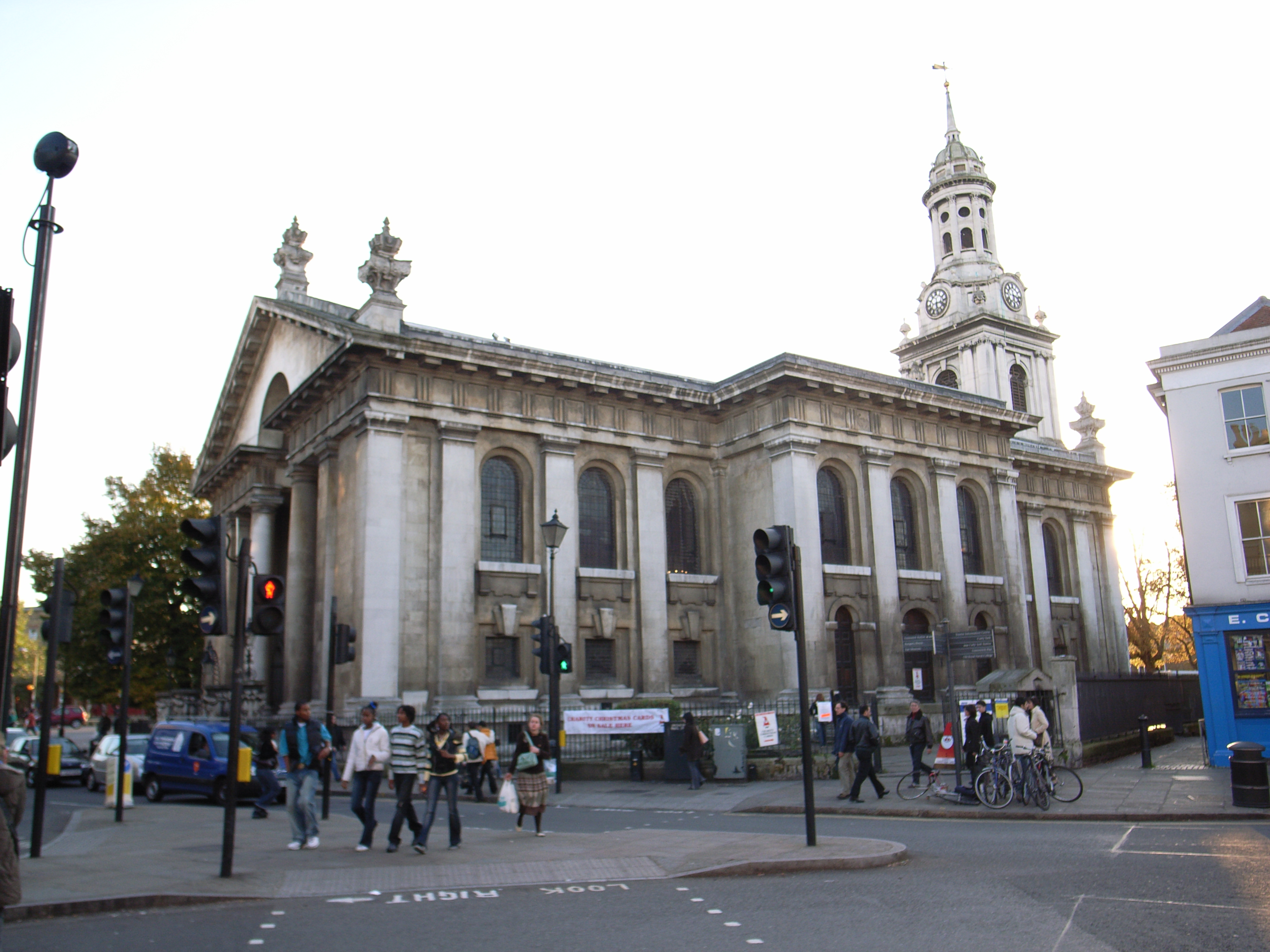 St Alfege (1712-18), Greenwich High Road, London, by Nicholas Hawksmoor and John James